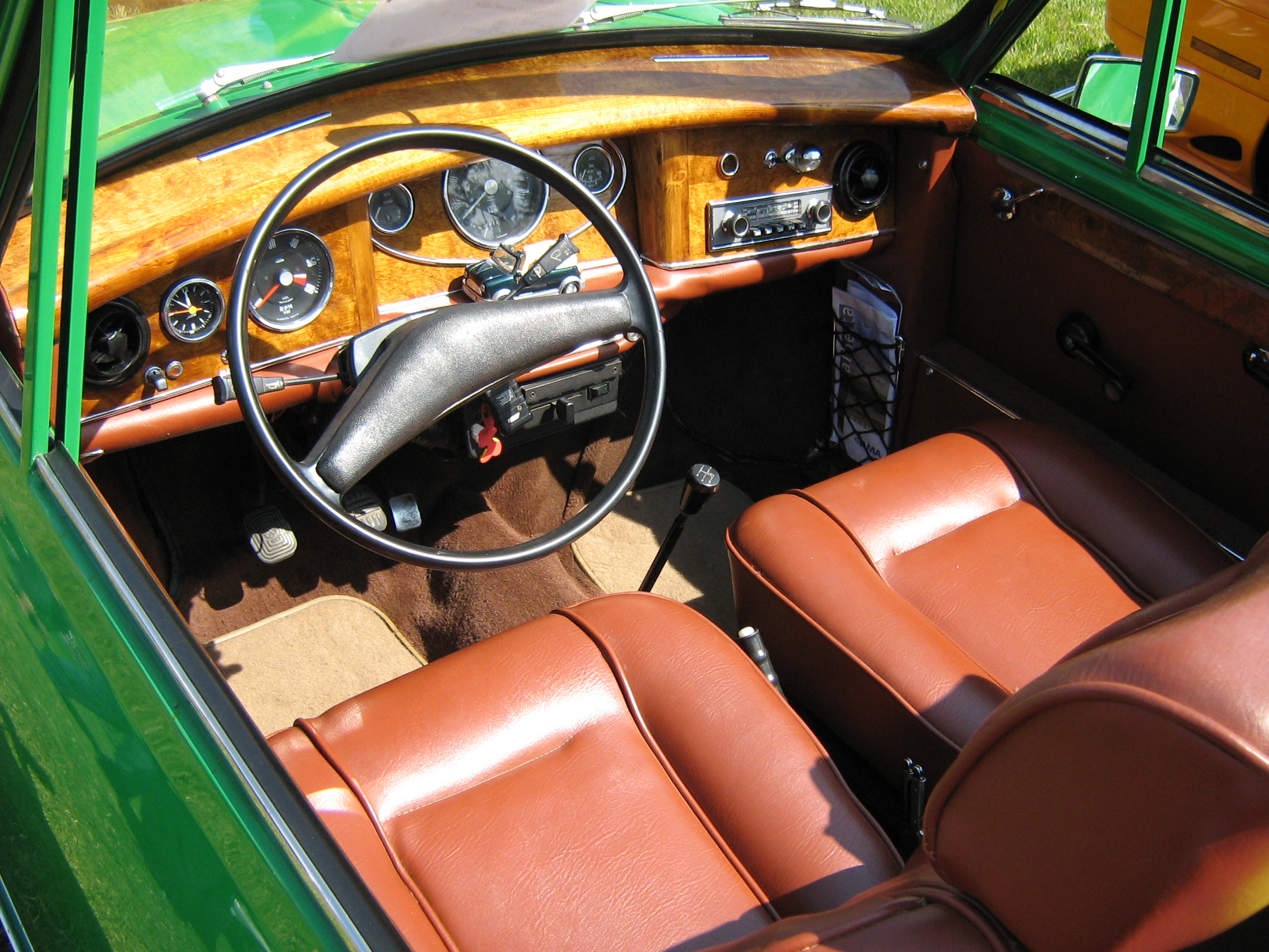 1975 Austin Mini Convertible